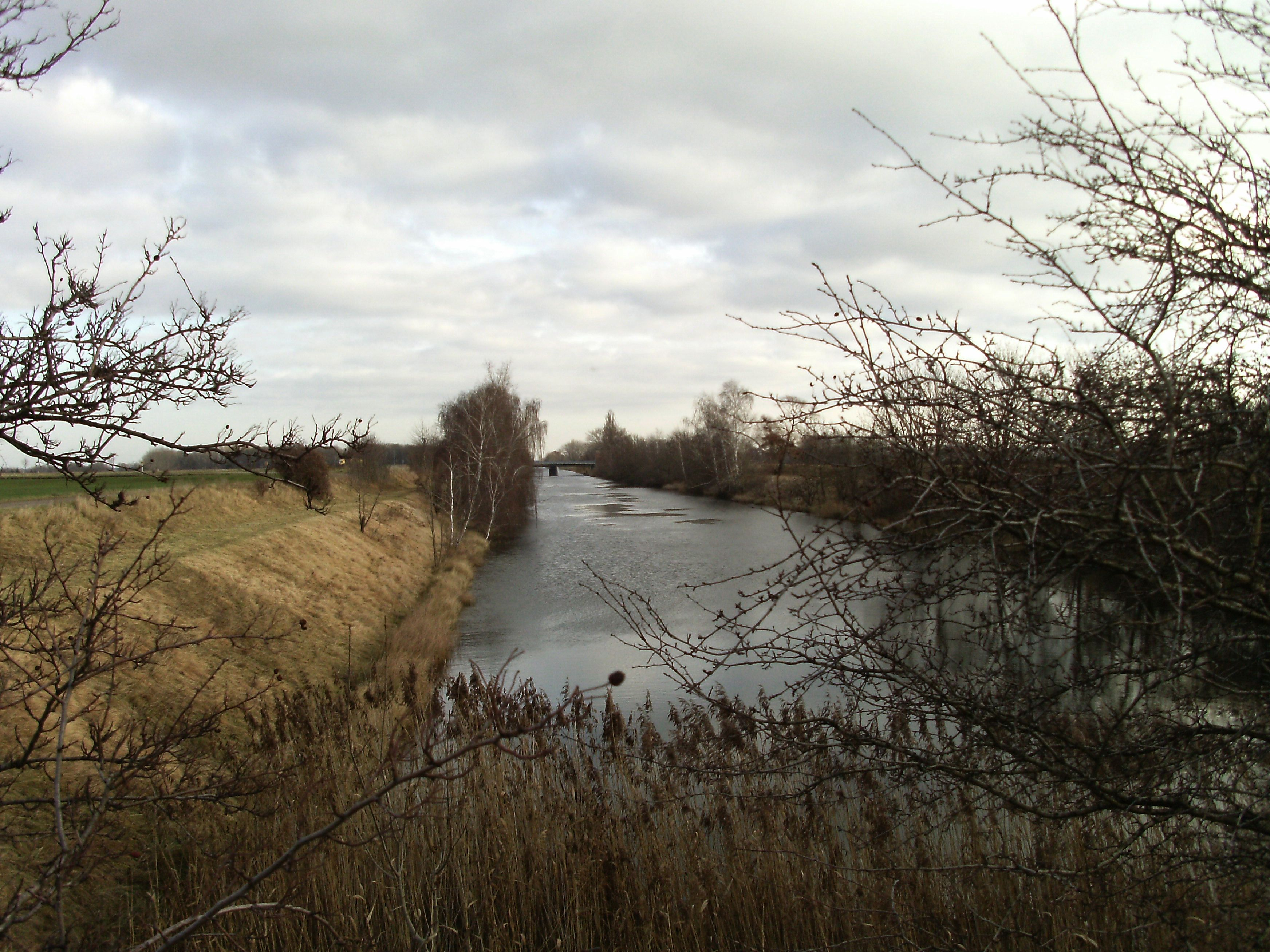 West end of the unfinished Elster-Saale-Kanal near Günthersdorf (Leuna, district of Saalekreis, Saxony-Anhalt)